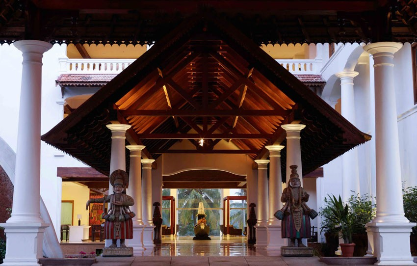 Theraviz